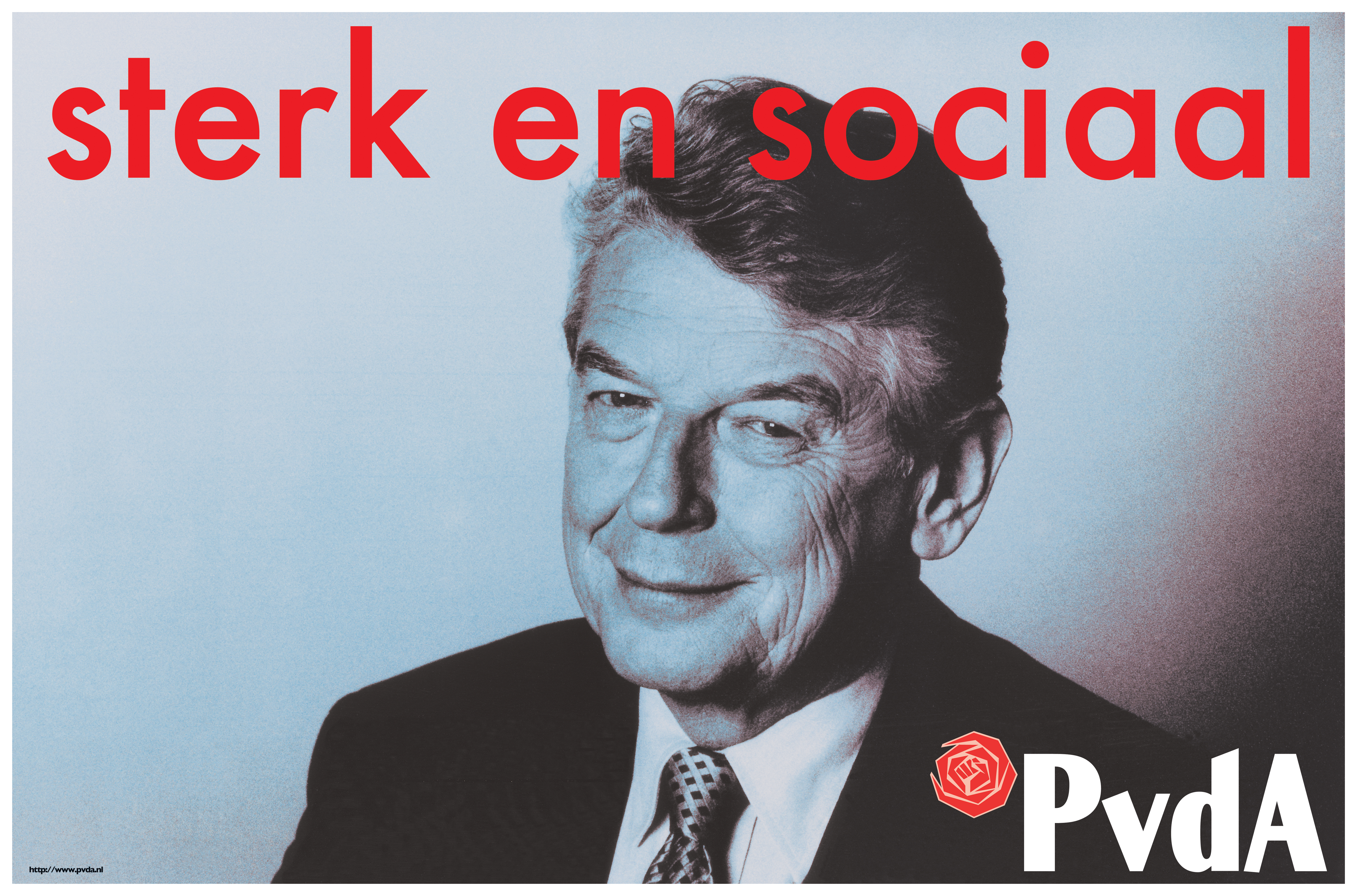 1998 election campaign poster of the PvdA